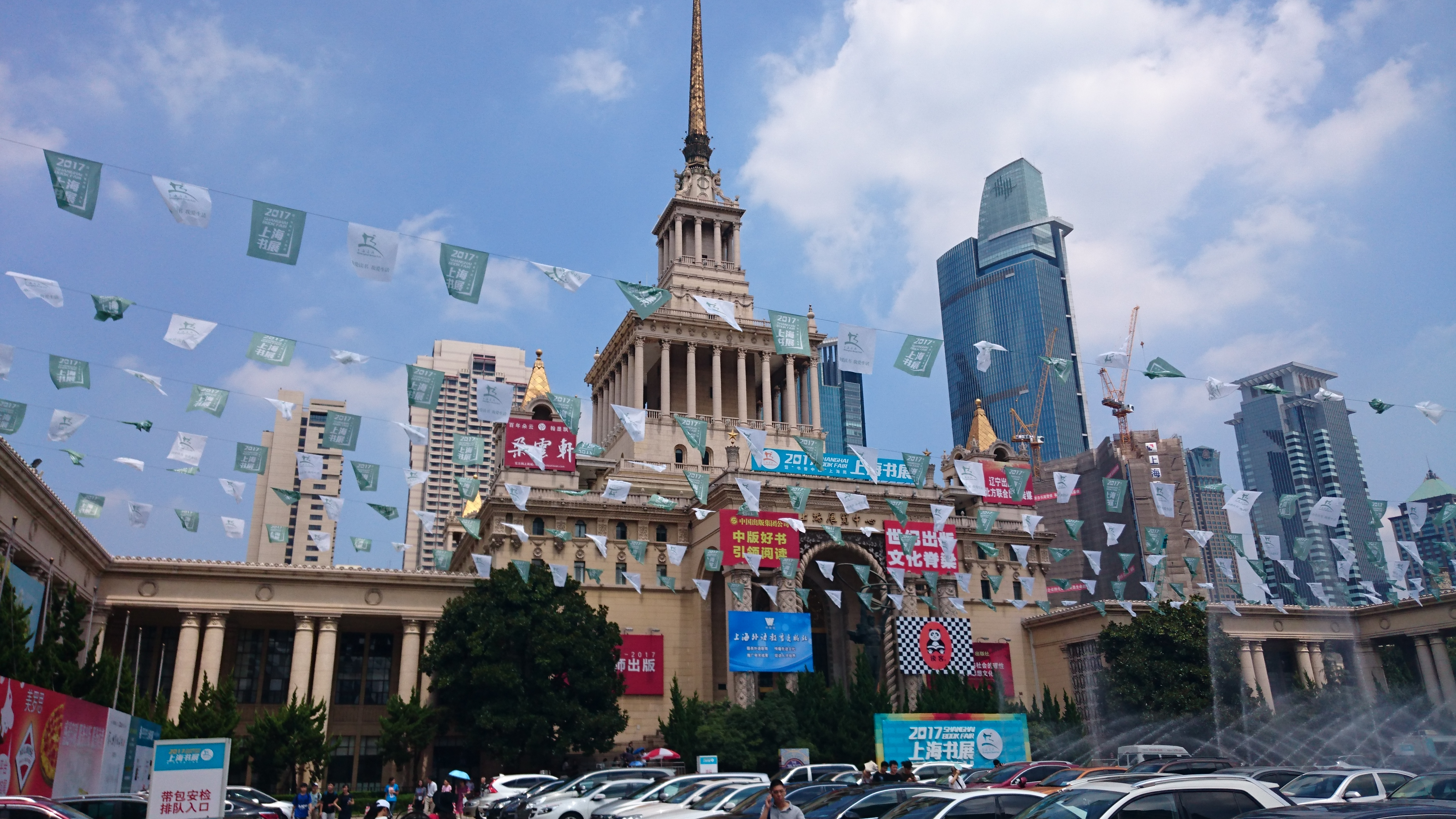 The Shanghai Bookfair 2017 was hold in Shanghai Exhibition Center (SEC).